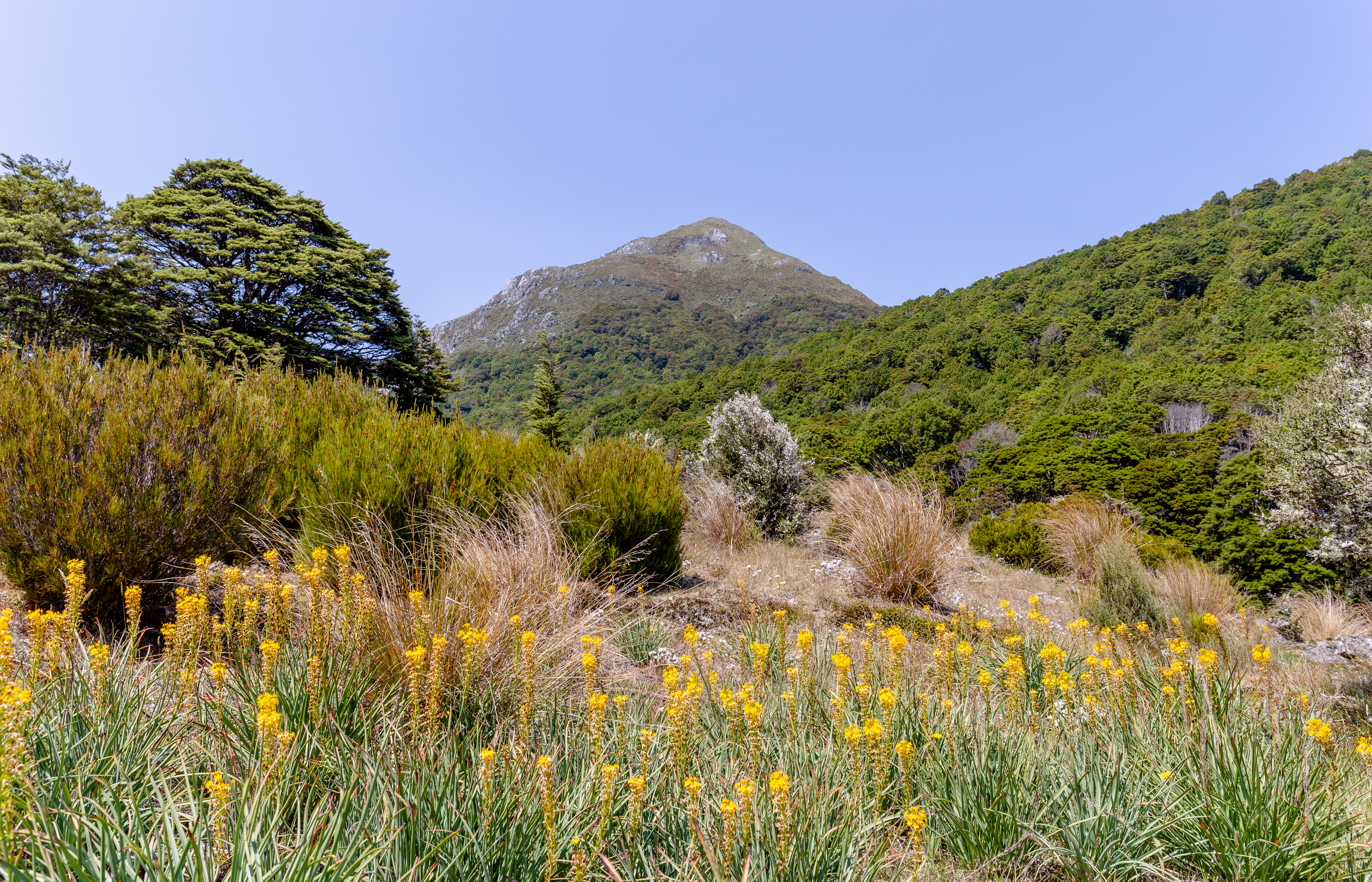 Bulbinella angustifolia (in the front) and Mt Mytton (in the back) from Cobb Valley, Kahurangi National Park, New Zealand